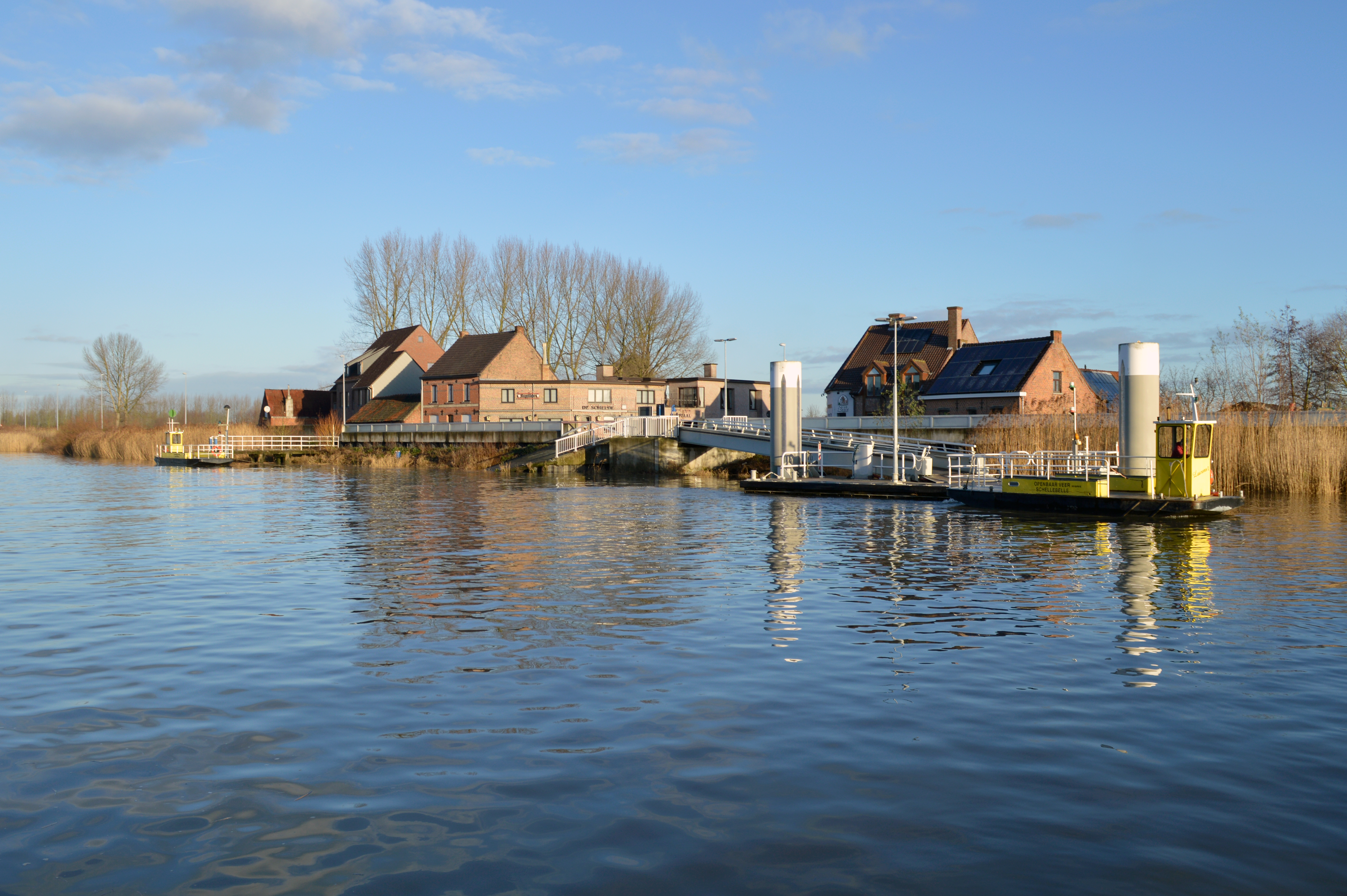 View on the hamlet Aard in Schellebelle, Wichelen, from the opposite side of the River Scheldt.